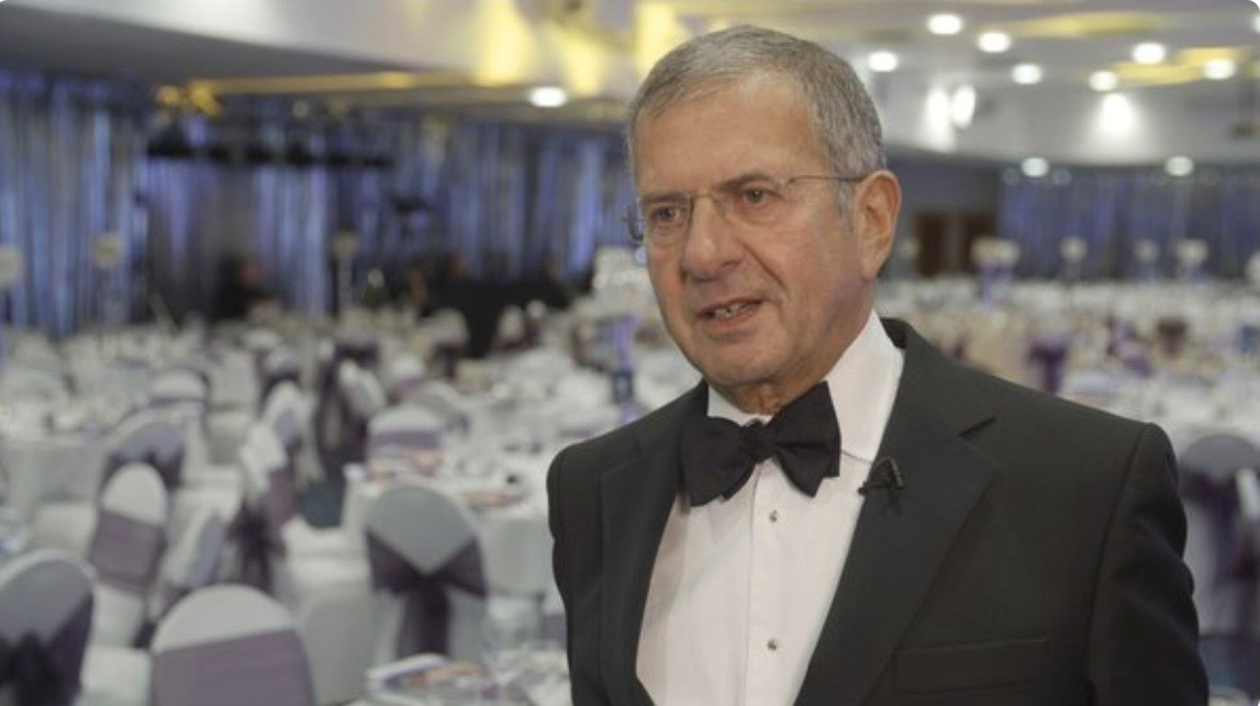 portrait